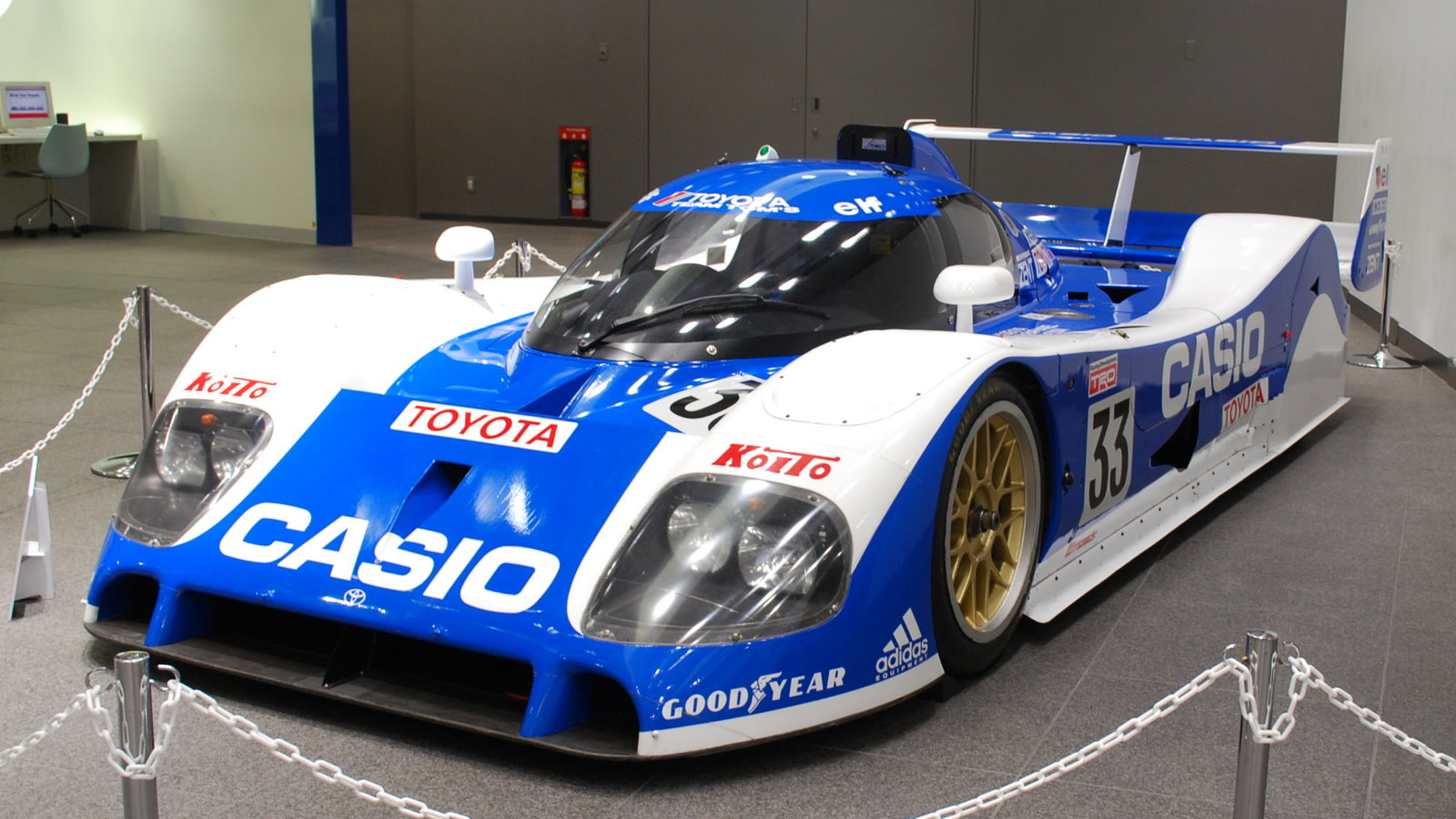 Toyota TS010